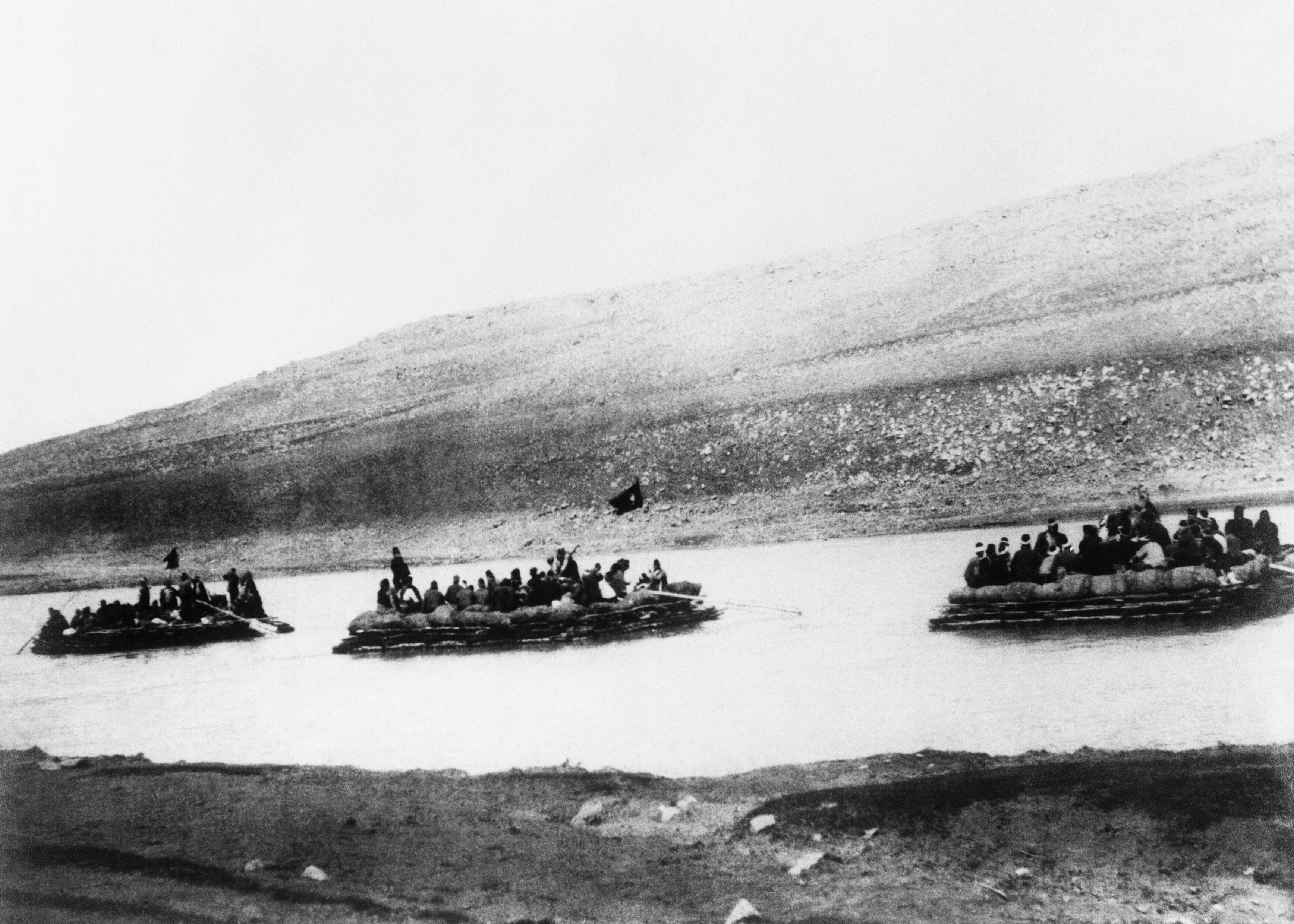 The Siege of Kut-el-amara, 1915-1916. Turkish troops proceeding down the River Tigris on rafts from Diabekir to join the besieging army at Kut-el-Amara.